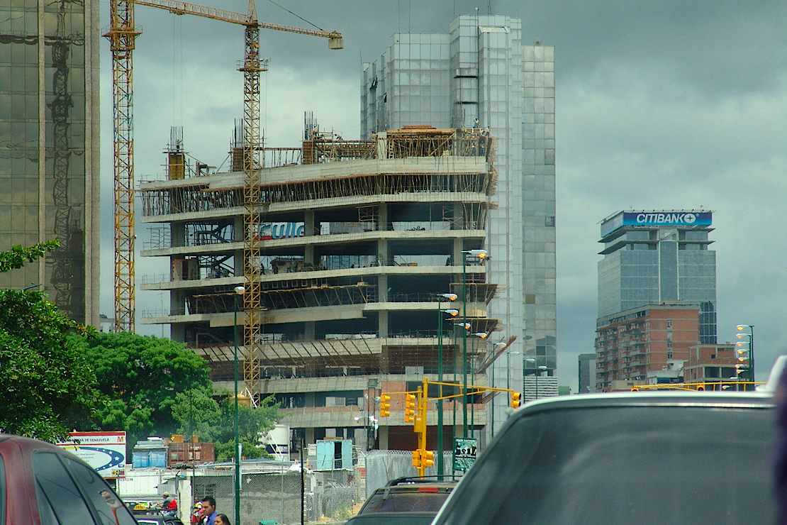 Construction of "La Tumba" in Caracas